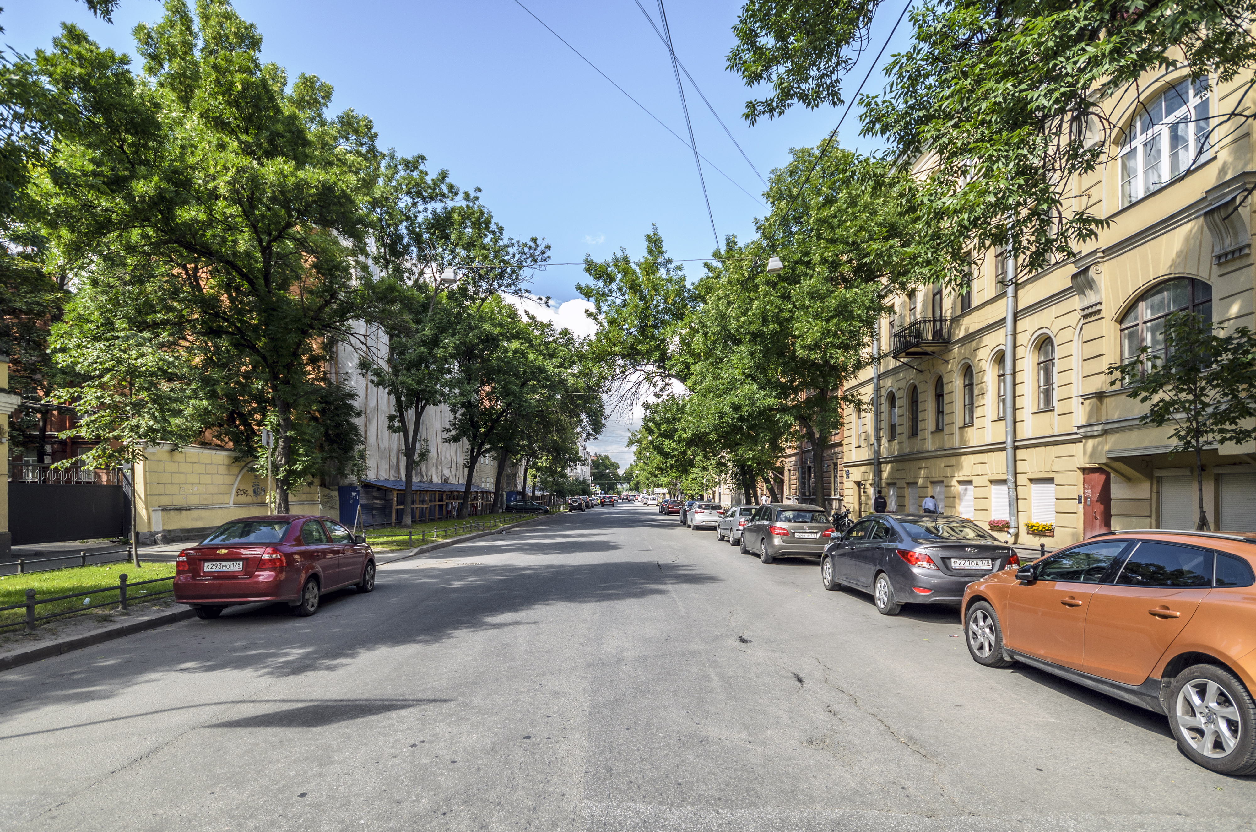 4-5 Lines of Vasilievsky Island in Saint Petersburg